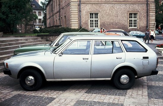 Mitsubishi Lancer estate (Lancer Van) in profile